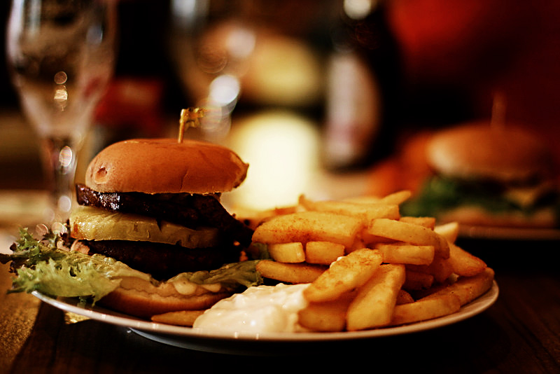 Vegan burger and chips